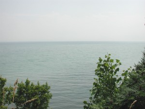 Lake Erie, looking southward from a high rural bluff, near Leamington, Ontario